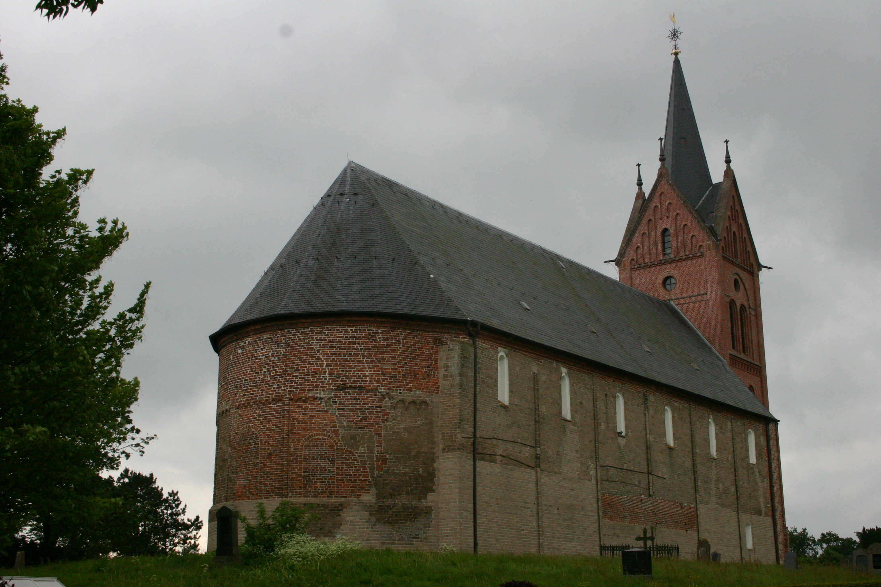 Historic St. Boniface Church in Arle, district of Aurich, East Frisia, Germany